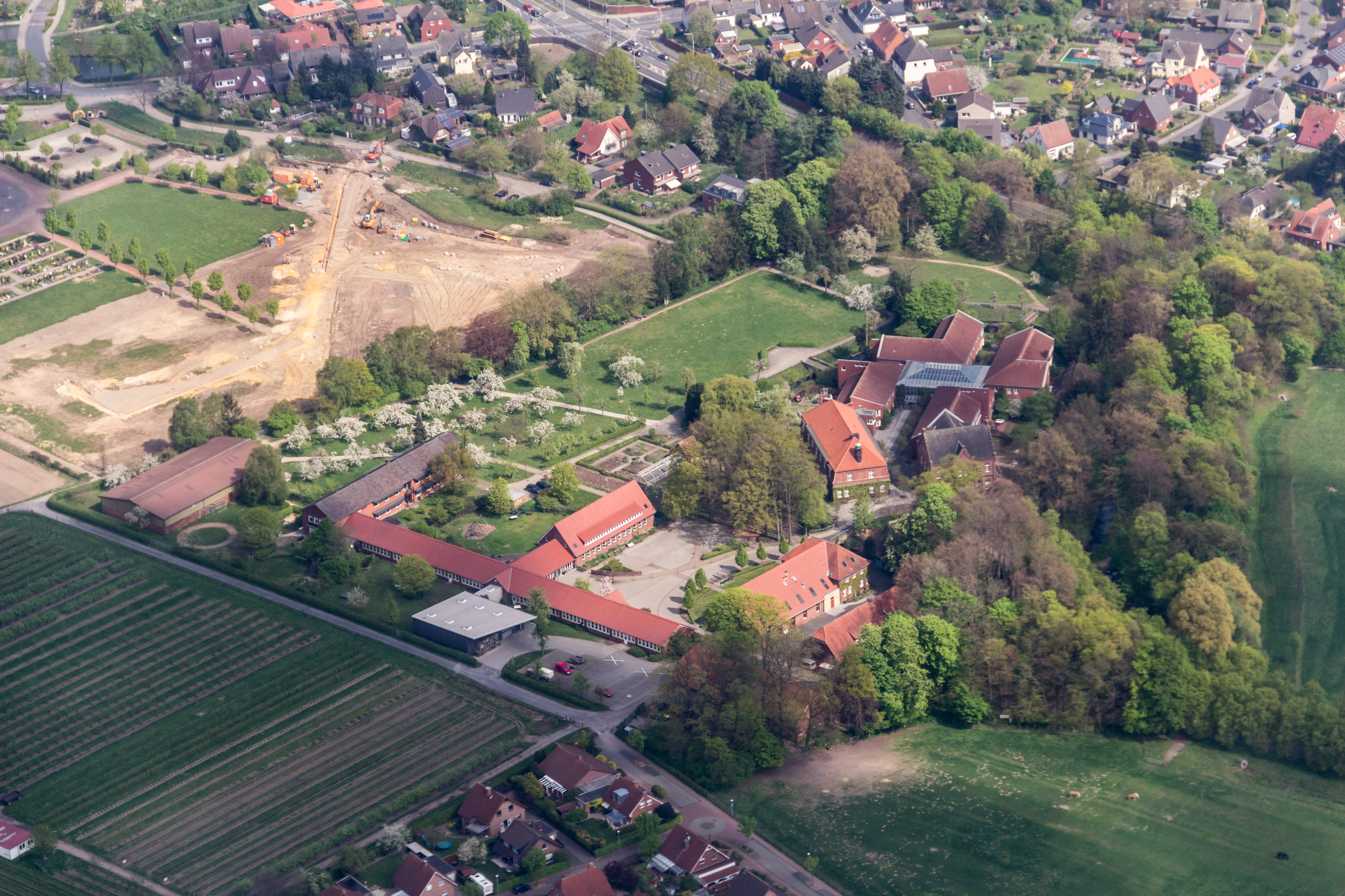 Coesfeld, North Rhine-Westphalia, Germany